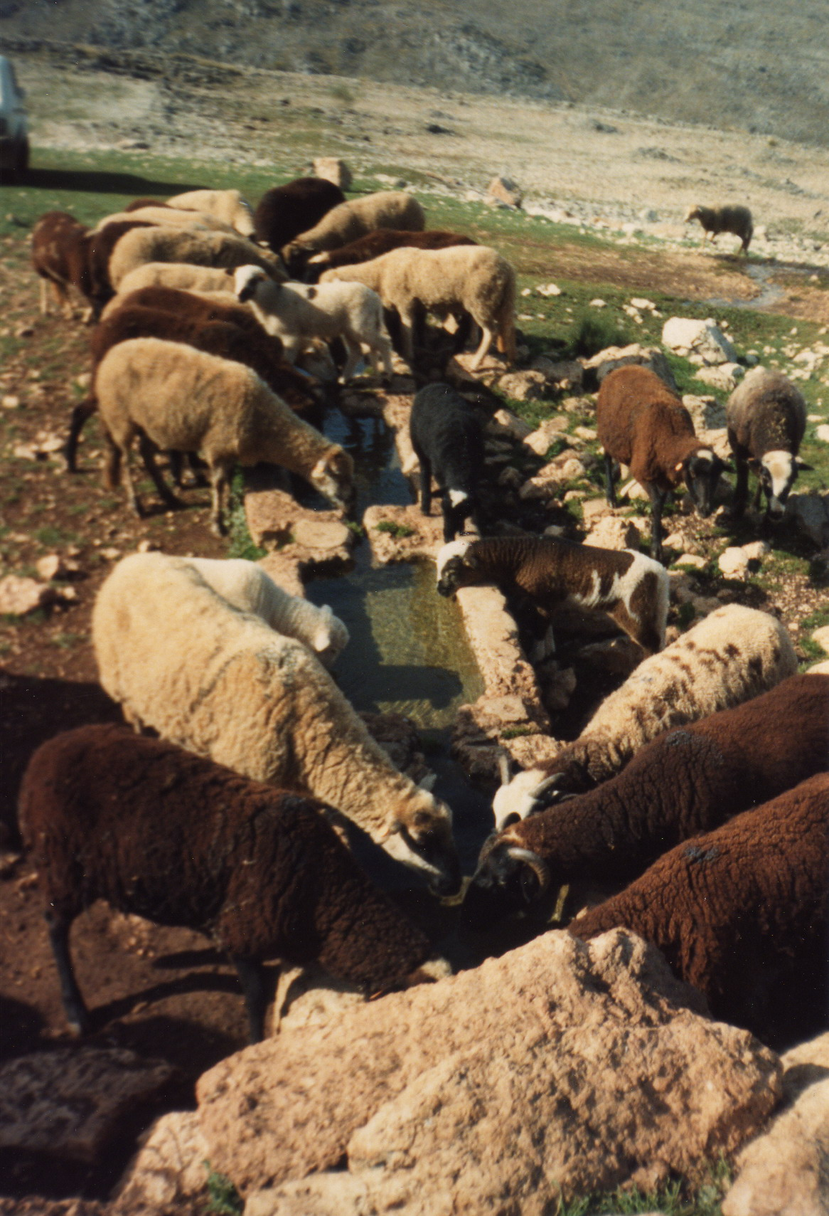 Fuente Baja en Sierra de Loja